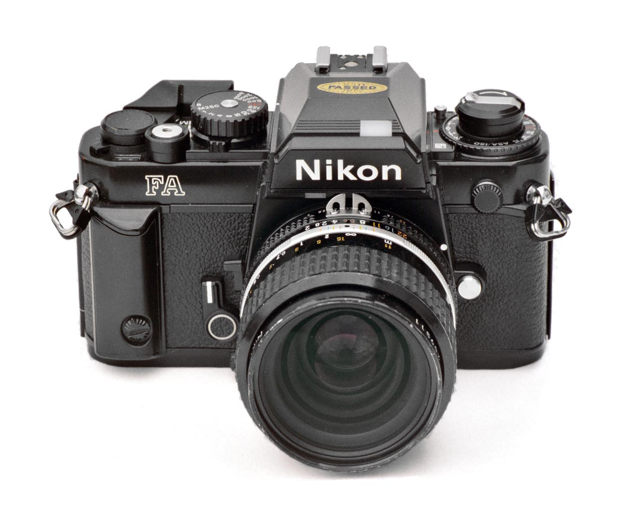 Nikon FA SLR camera (black) from front with Nikkor AI-S 35 mm f/2 lens